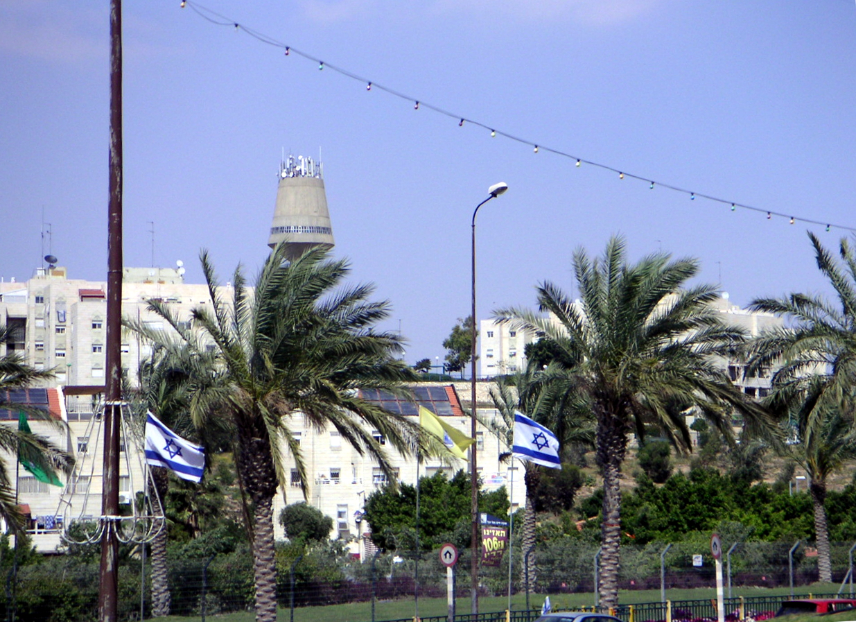 Ma'ale Adumim, Har HaBayit street adorned with flags for 58th Independence Day - view from Jericho Road Photo: Soman Location: Ma'ale Adumim